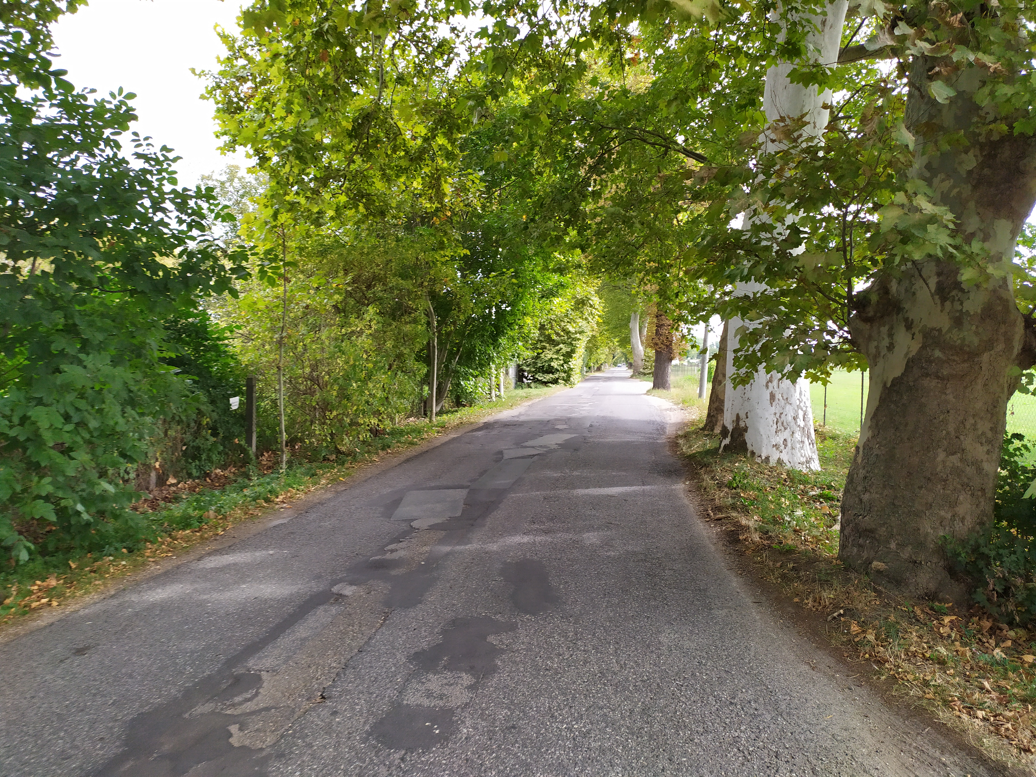 Platánfa sor (Platanová alej) street, Komárom (Komárno)